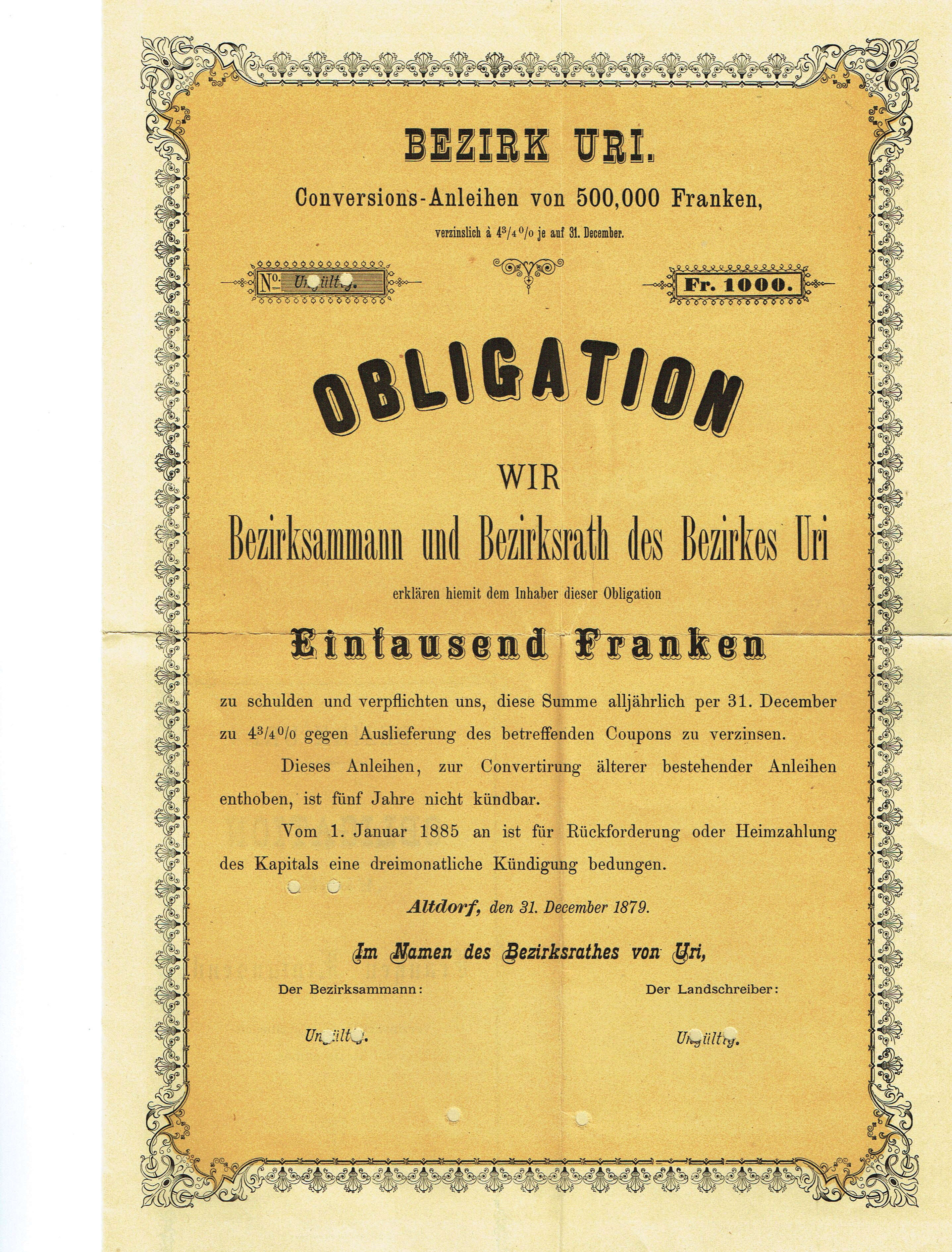 Bond of the canton of Uri, issued 31. December 1879